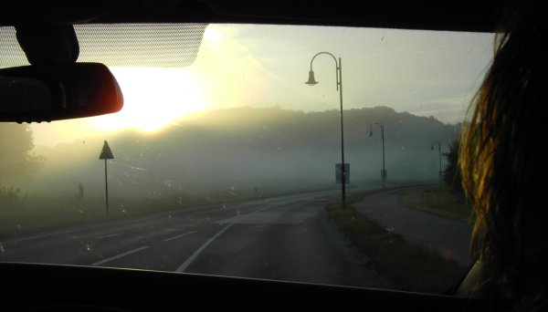 In the morning at 6 o'clock on the isle of Rügen, taken by myself